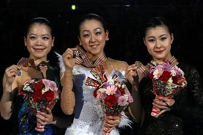 The ladies podium at the 2013 Four Continents Championships. From left: Akiko Suzuki (2nd), Mao Asada (1st), Kanako Murakami (3rd)